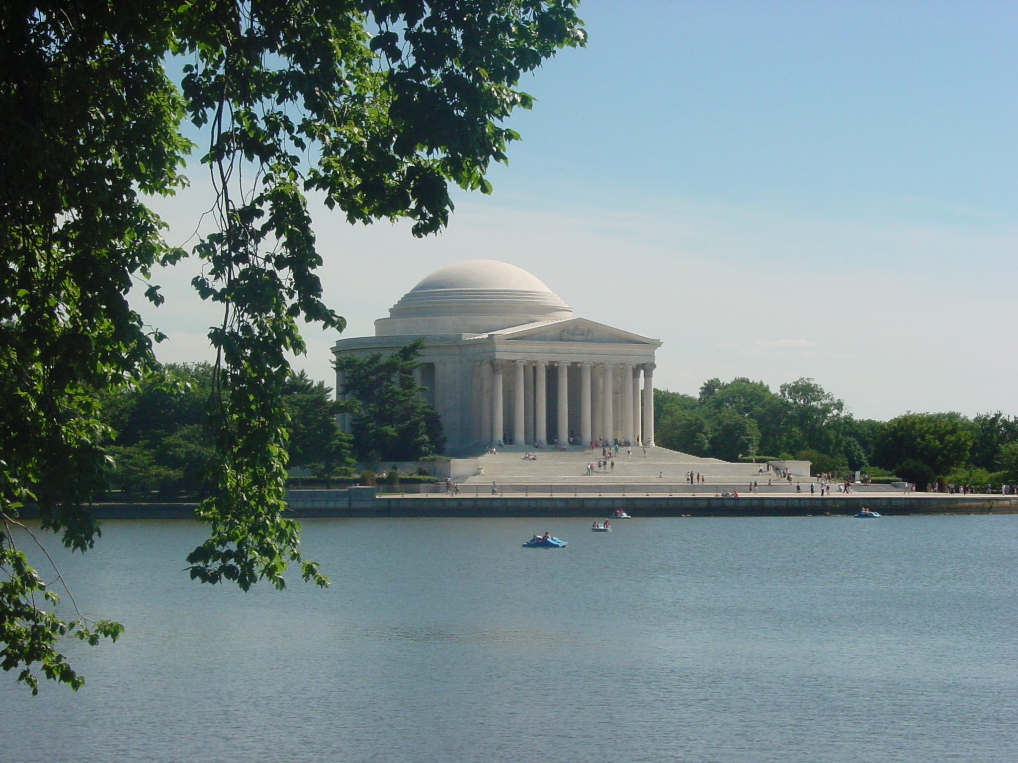 This photograph is of the Jefferson Memorial as seen from across the Tidal Basin in Washington, DC.